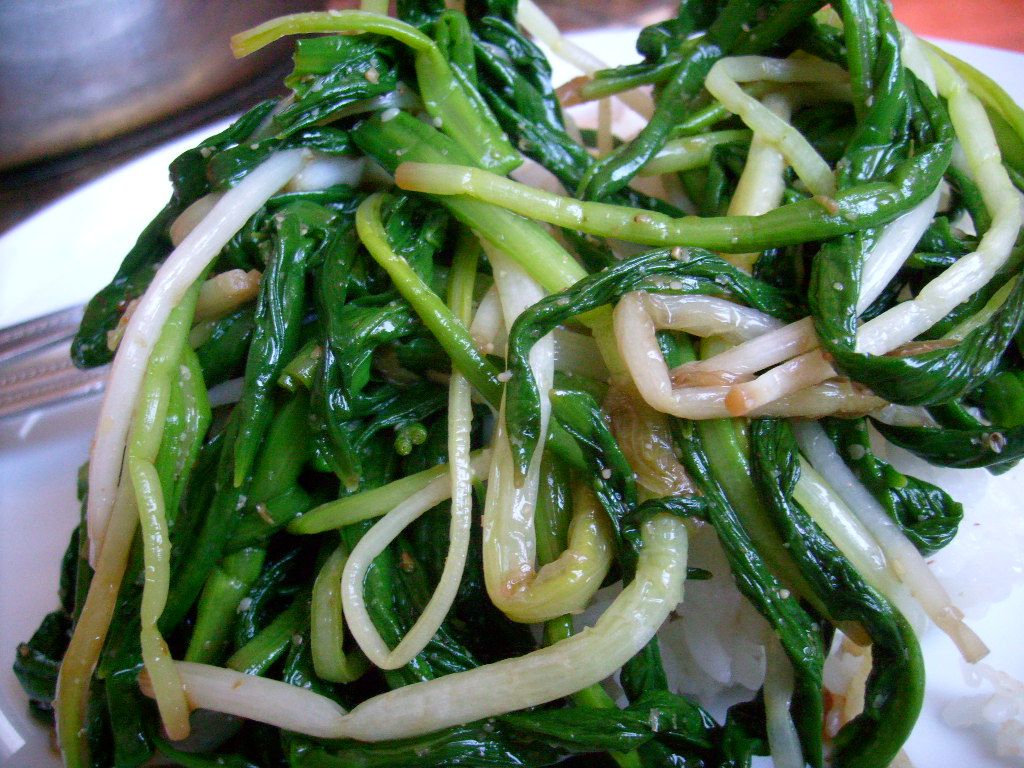 Salad (Kimchi) from fresh ramsons for the recipe, you may ask the author